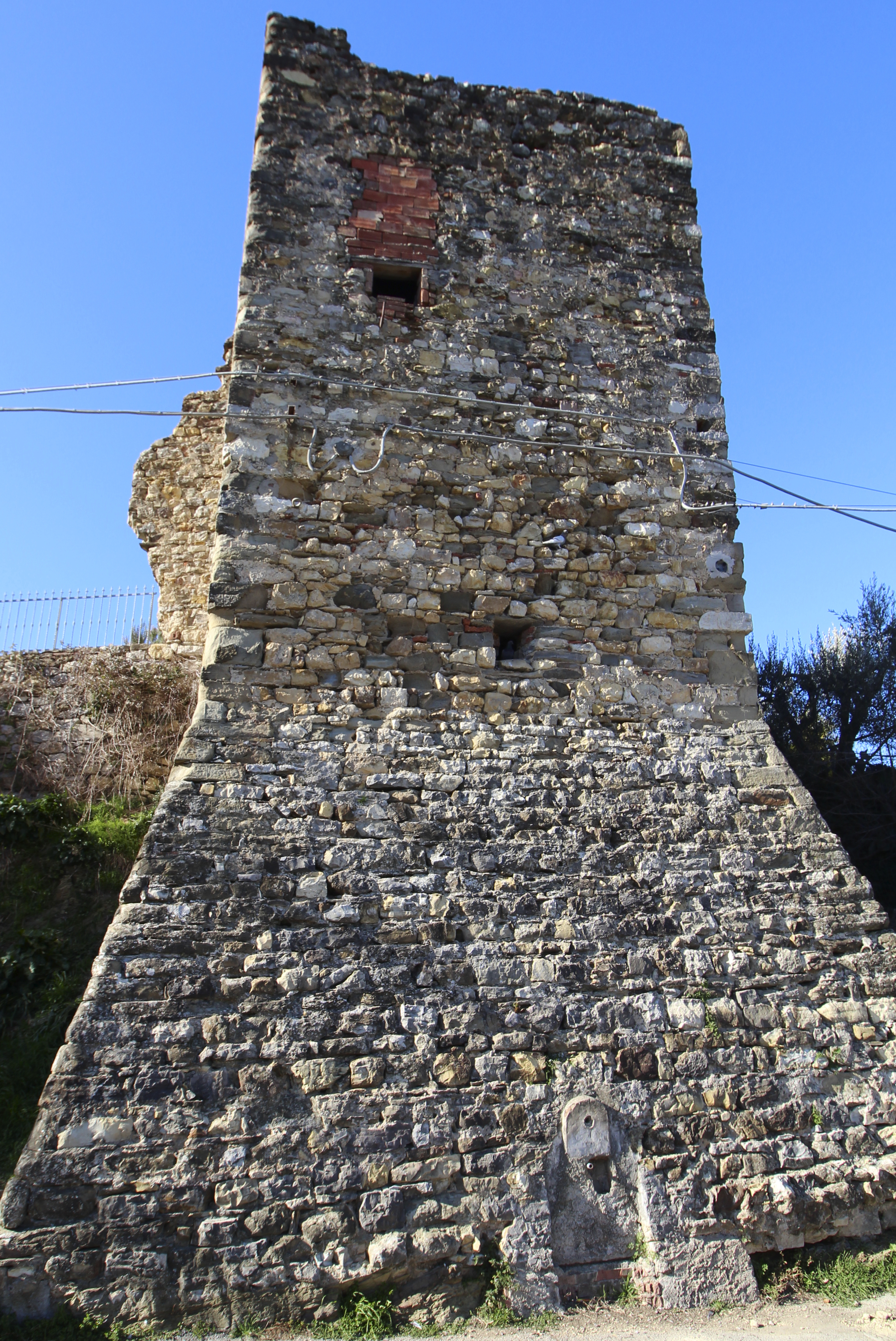 Castle Castello di Oro, Oro, hamlet of Piegaro, Umbria, Italy